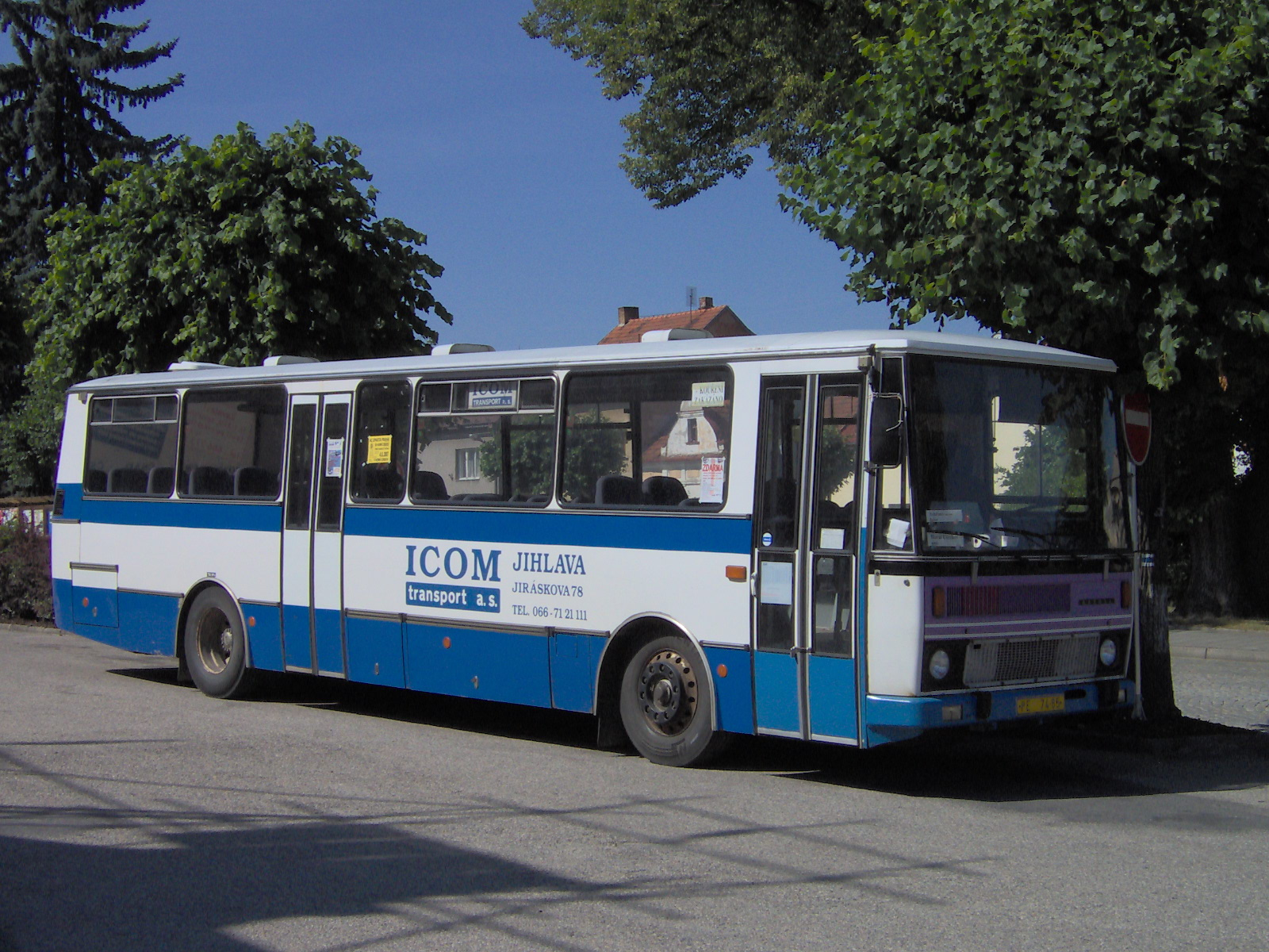 Karosa C 734 bus in Horní Cerekev